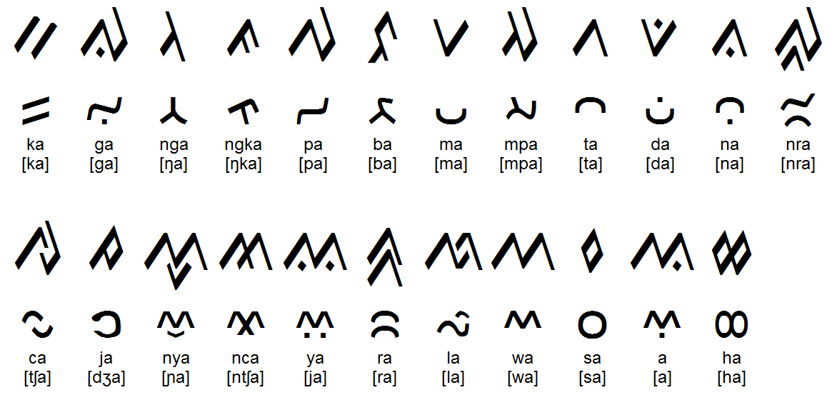 Consonants in the lontara script (buginese script). Symbols written with two TTF-fonts, Code2000 and Saweri. Lontara is an indic script that has been used historically for buginese, and a couple of related languages.